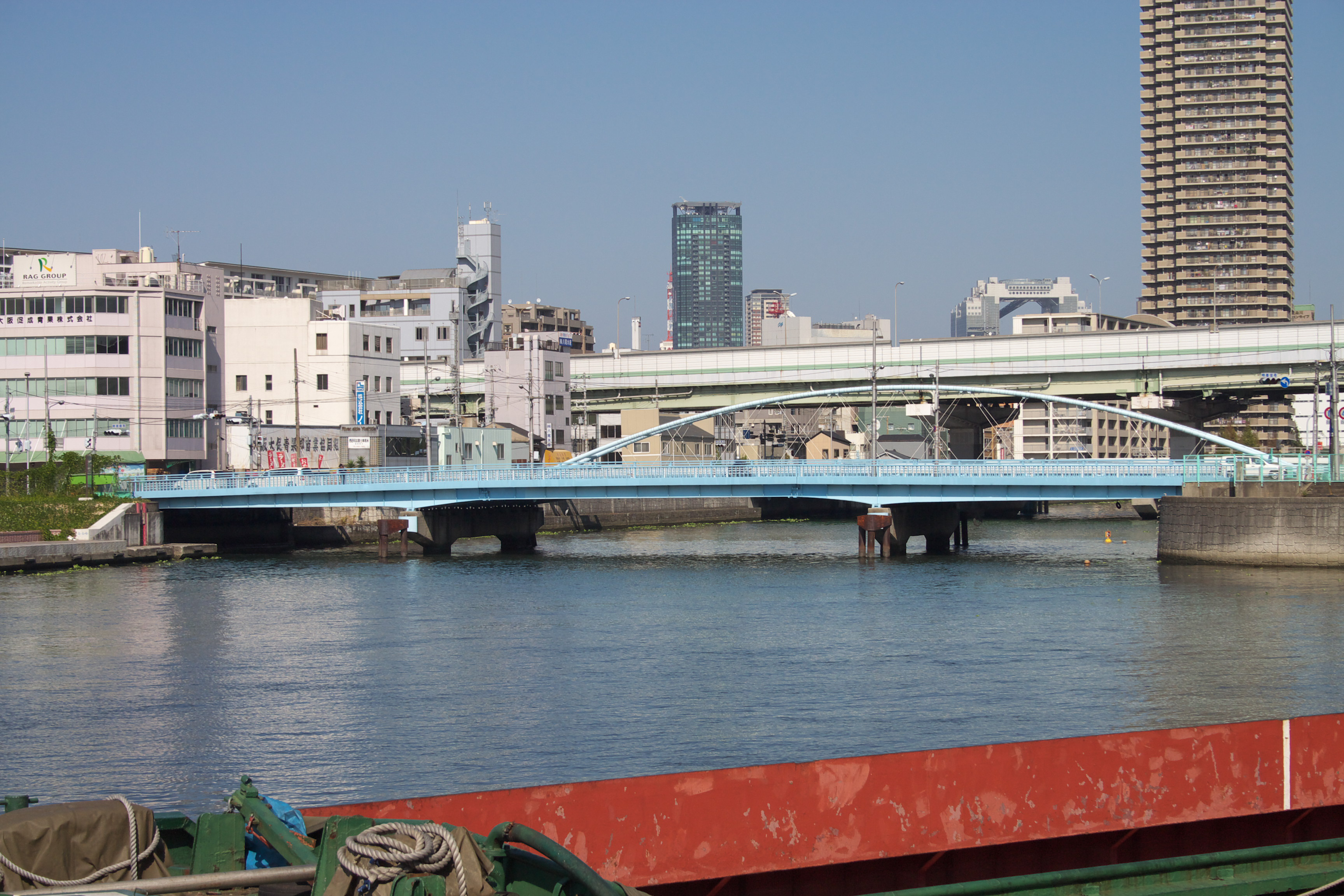 Funatsubashi (Osaka, JAPAN)